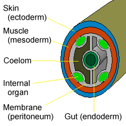 Basic structure of a coelomate animal.